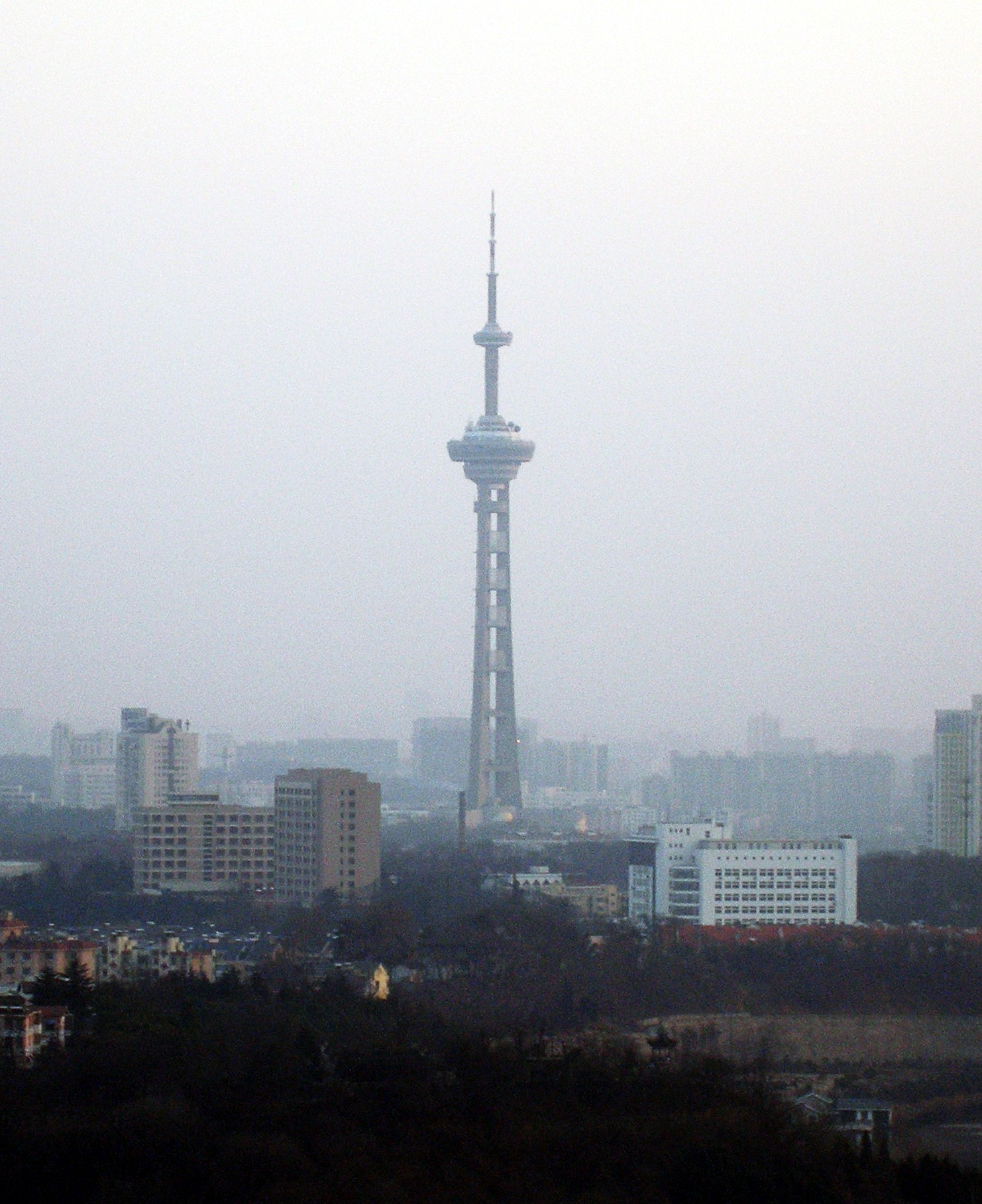 TV tower seen at Yue Kang Liu on Lion mountain of Nanjing